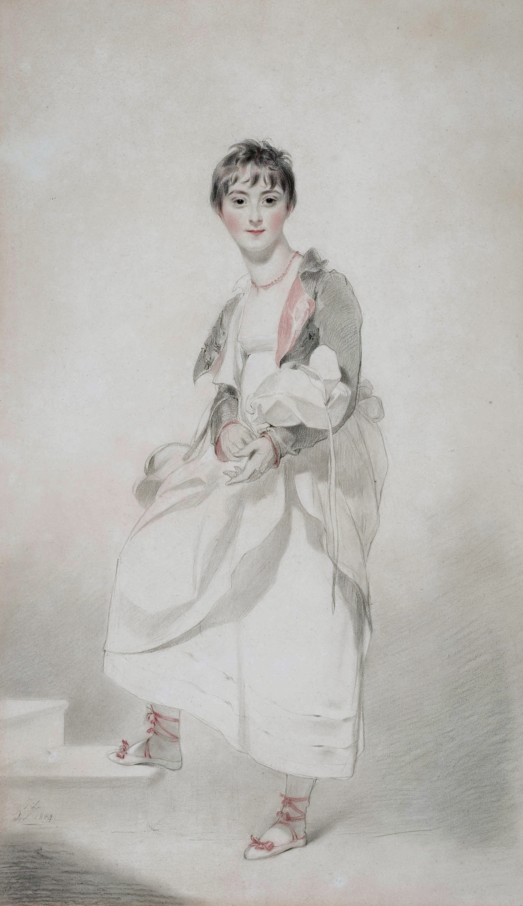 Frances Hamilton (1795-1860) black and red chalk 55.6 x 32.1 cm signed b.l.: T.L. delt./ 1804